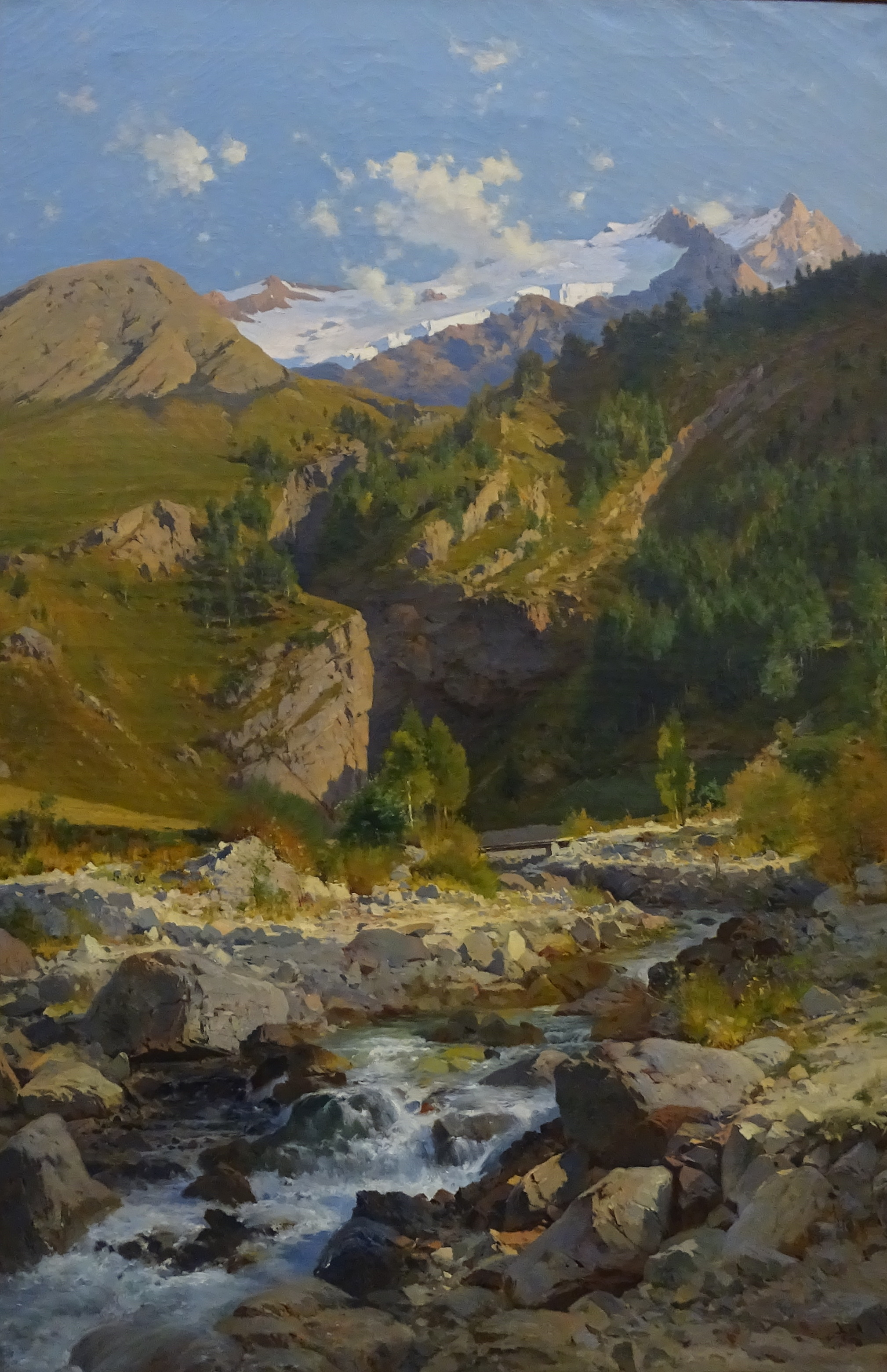 Le torrent de Chalvachére, le glacier du Tabuchet et la Meije. painting by Laurent Guétal. 1888. Musée de Grenoble